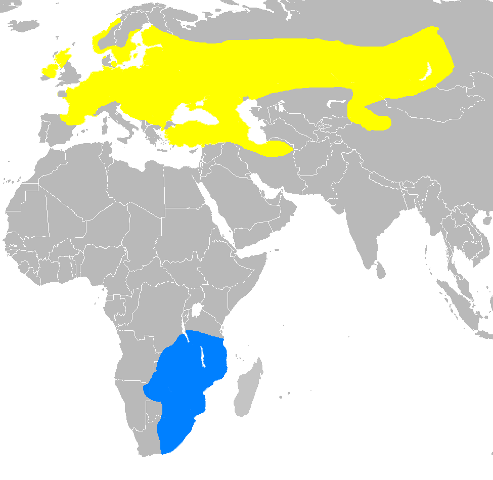 Approximate range map for the Corncrake, Crex crex Yellow - Breeding summer visitor Blue - Winter visitor.